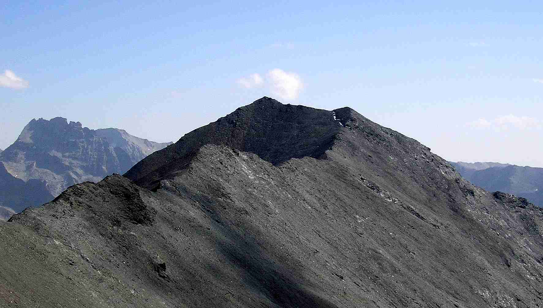 Cima del Vallone (French/Italian border, Cottian Alps) as seen from Punta Bagnà; on the left Rognosa di Etiache